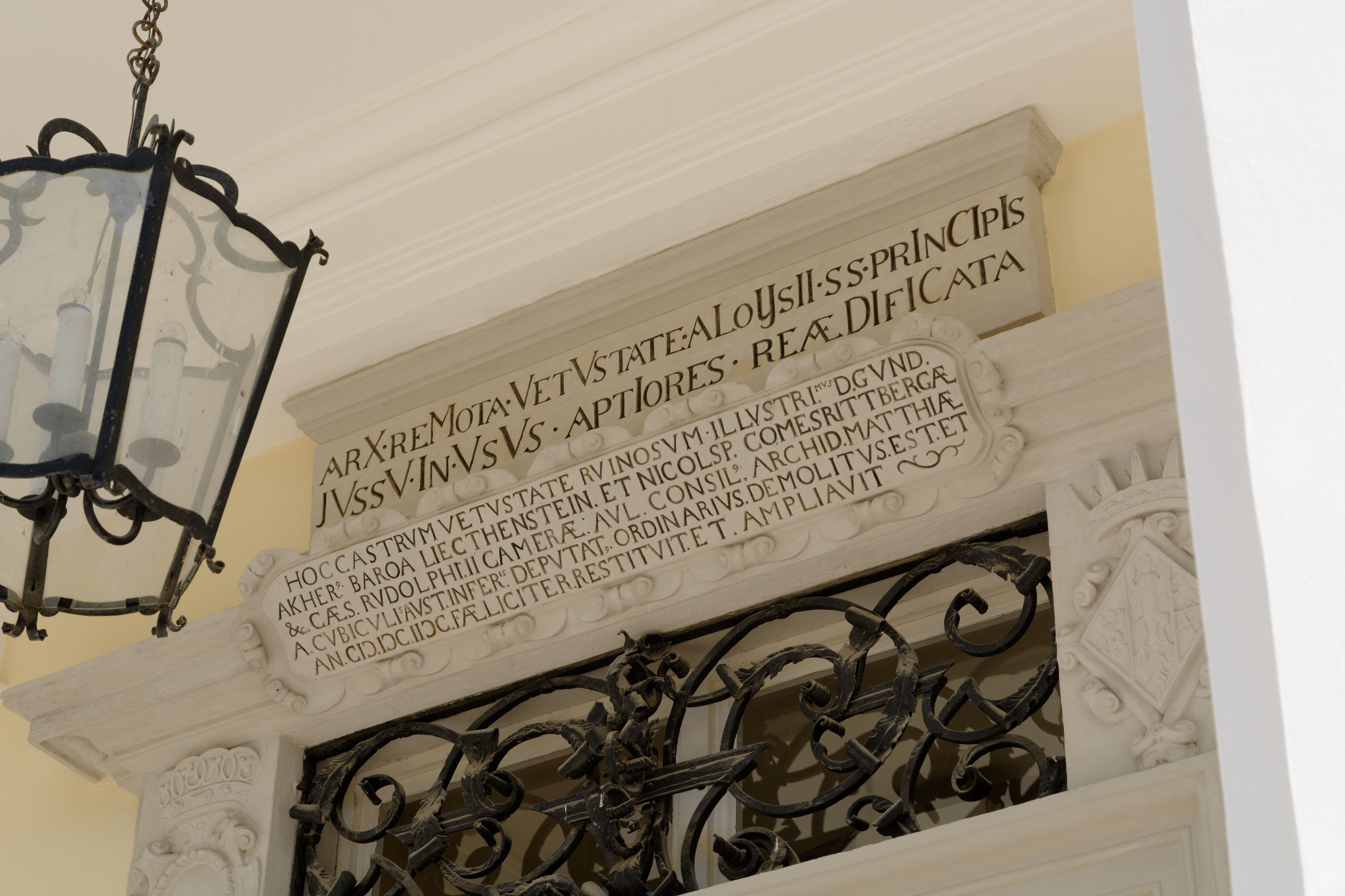 Inscription above the main entrance of palace Liechtenstein in Wilfersdorf, Lower Austria, Austria